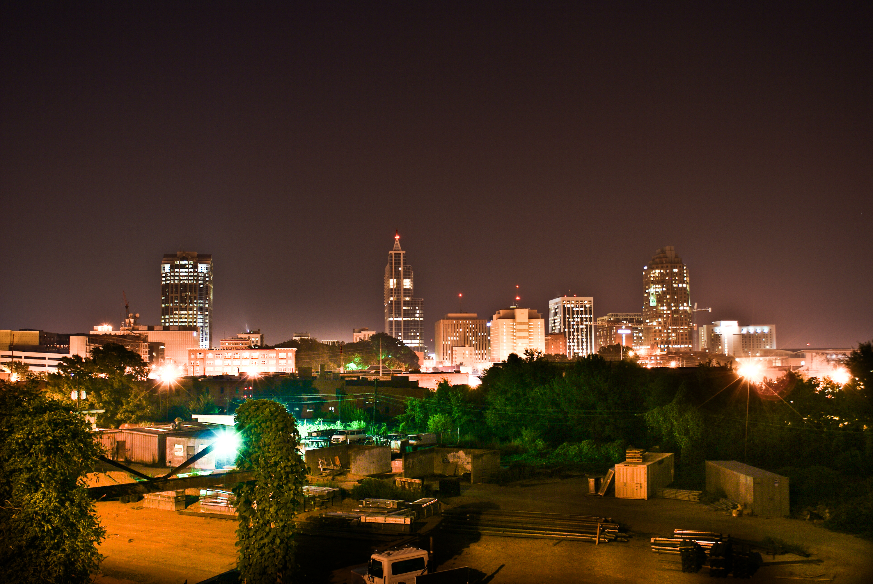 Downtown Raleigh Skyline viewed from Boylan Ave